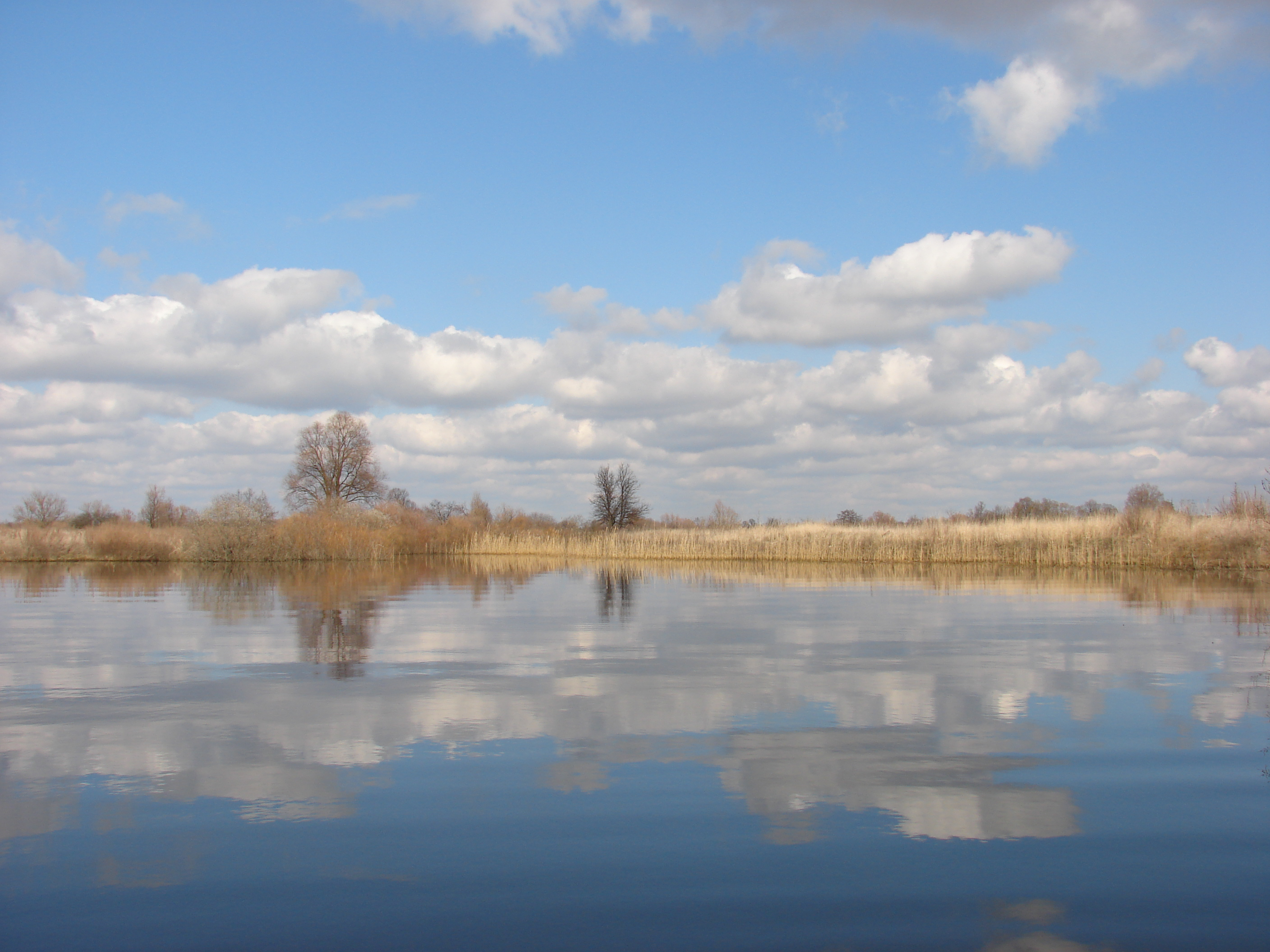 Chigla river